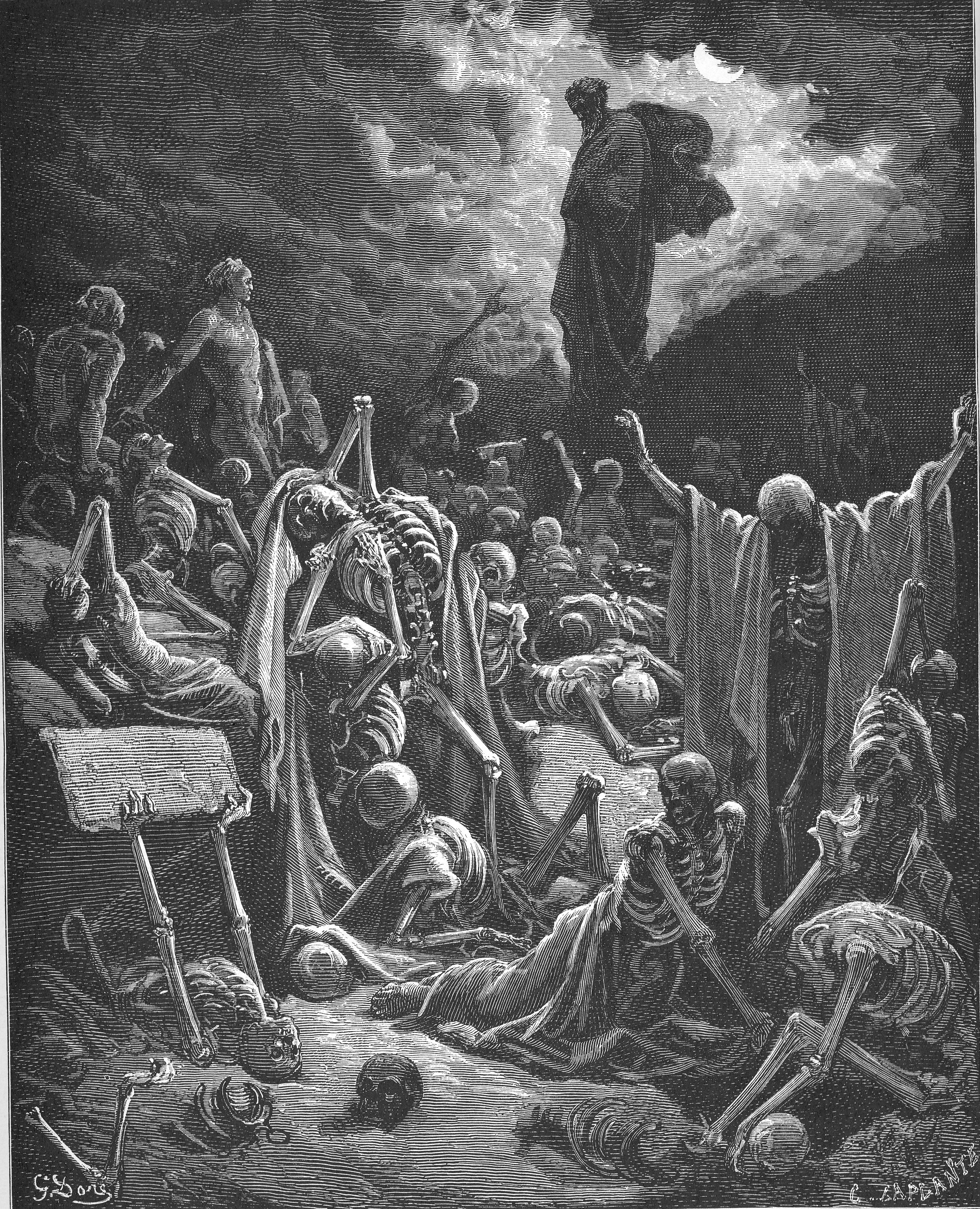 Ezekiel’s Vision of the Valley of Dry Bones (Ez. 37:1-14)